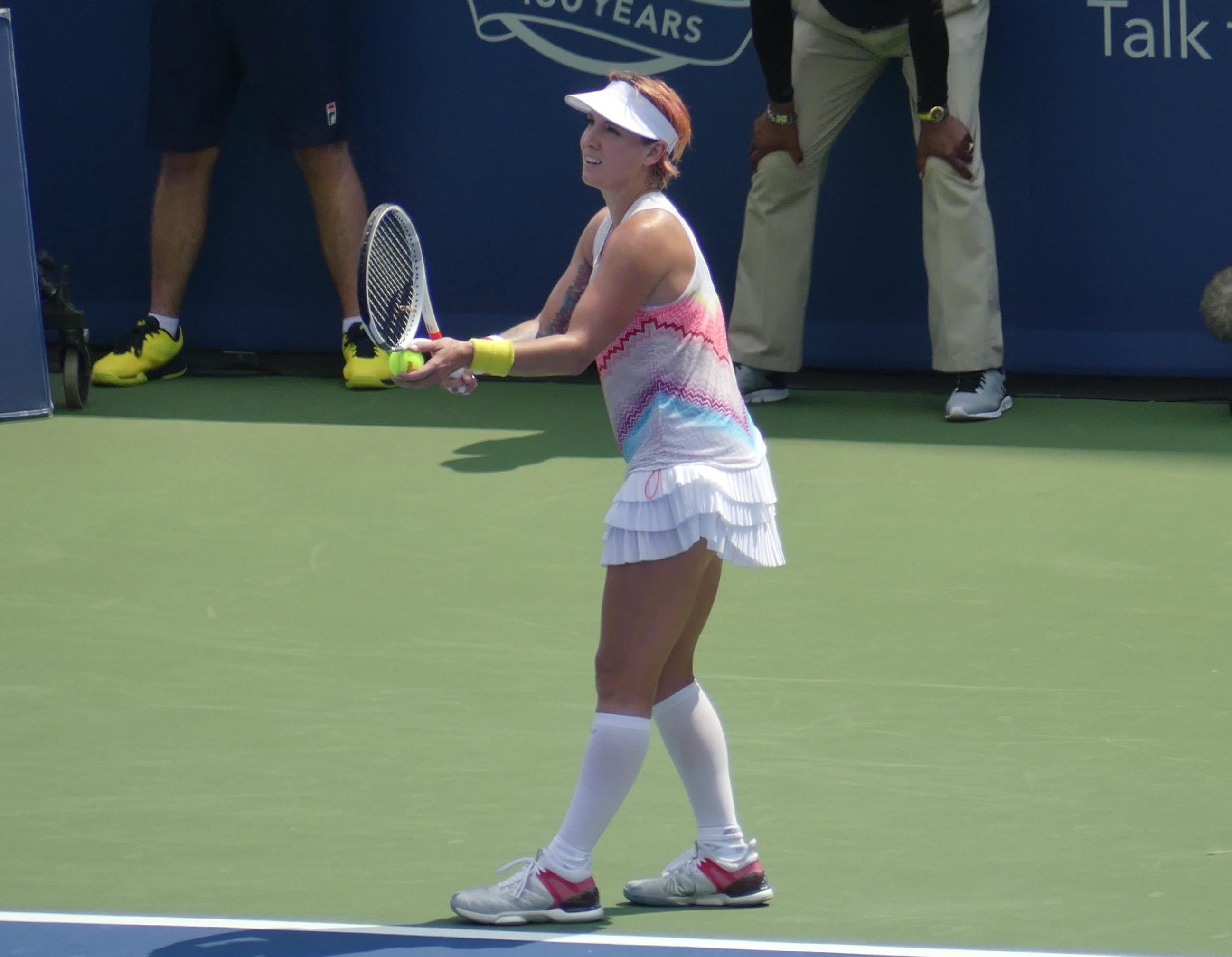 Bethanie Mattek-Sands during her first round match of the 2018 Western and Southern Open against Madison Keys.